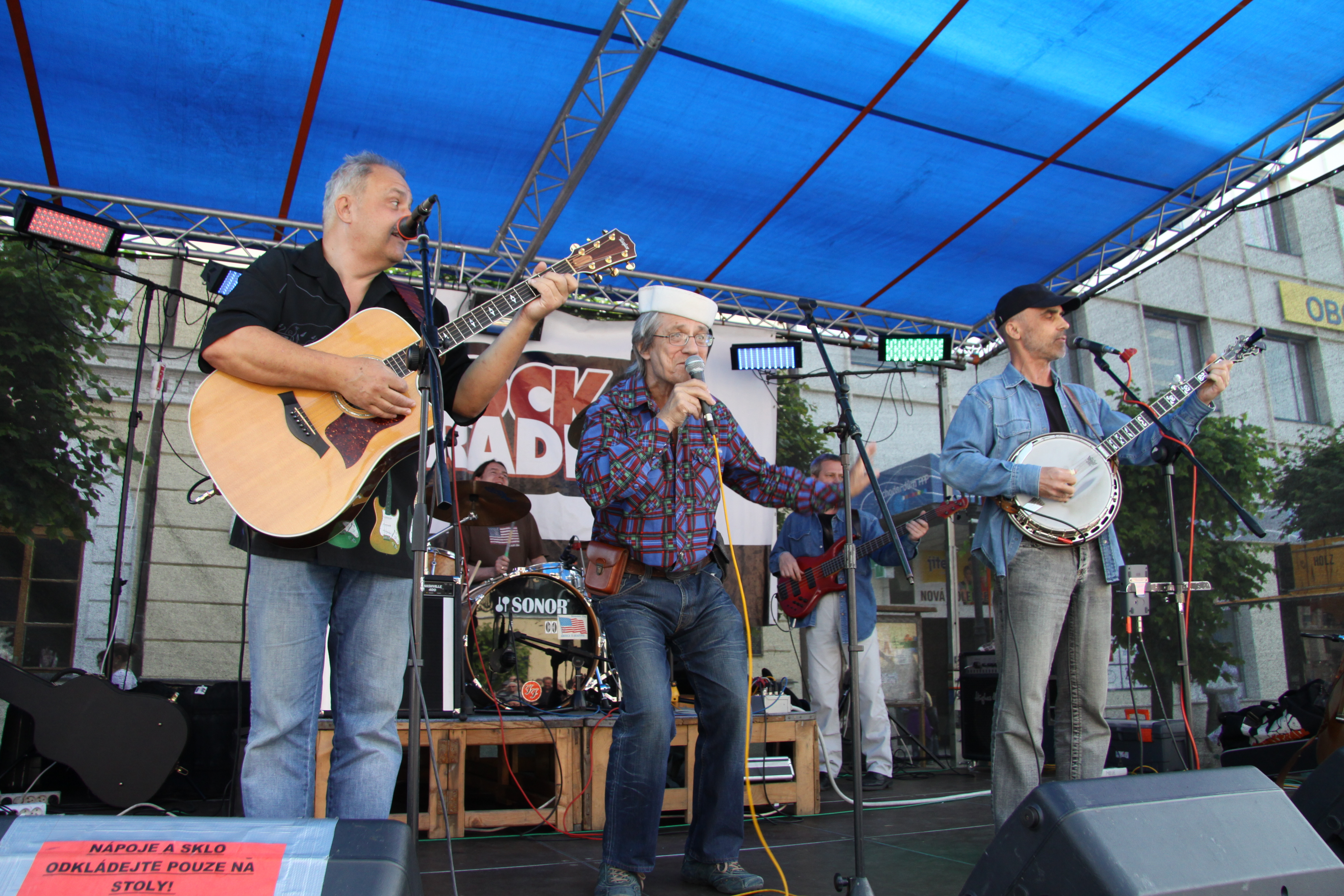 Czech music band Greenhorns in Písek during of "Dotkni se Písku" - town celebration, Písek, Czech Republic Personality rights warning Although this work is freely licensed or in the public domain, the person(s) shown may have rights that legally restrict certain re-uses unless those depicted consent to such uses. In these cases, a model release or other evidence of consent could protect you from infringement claims.